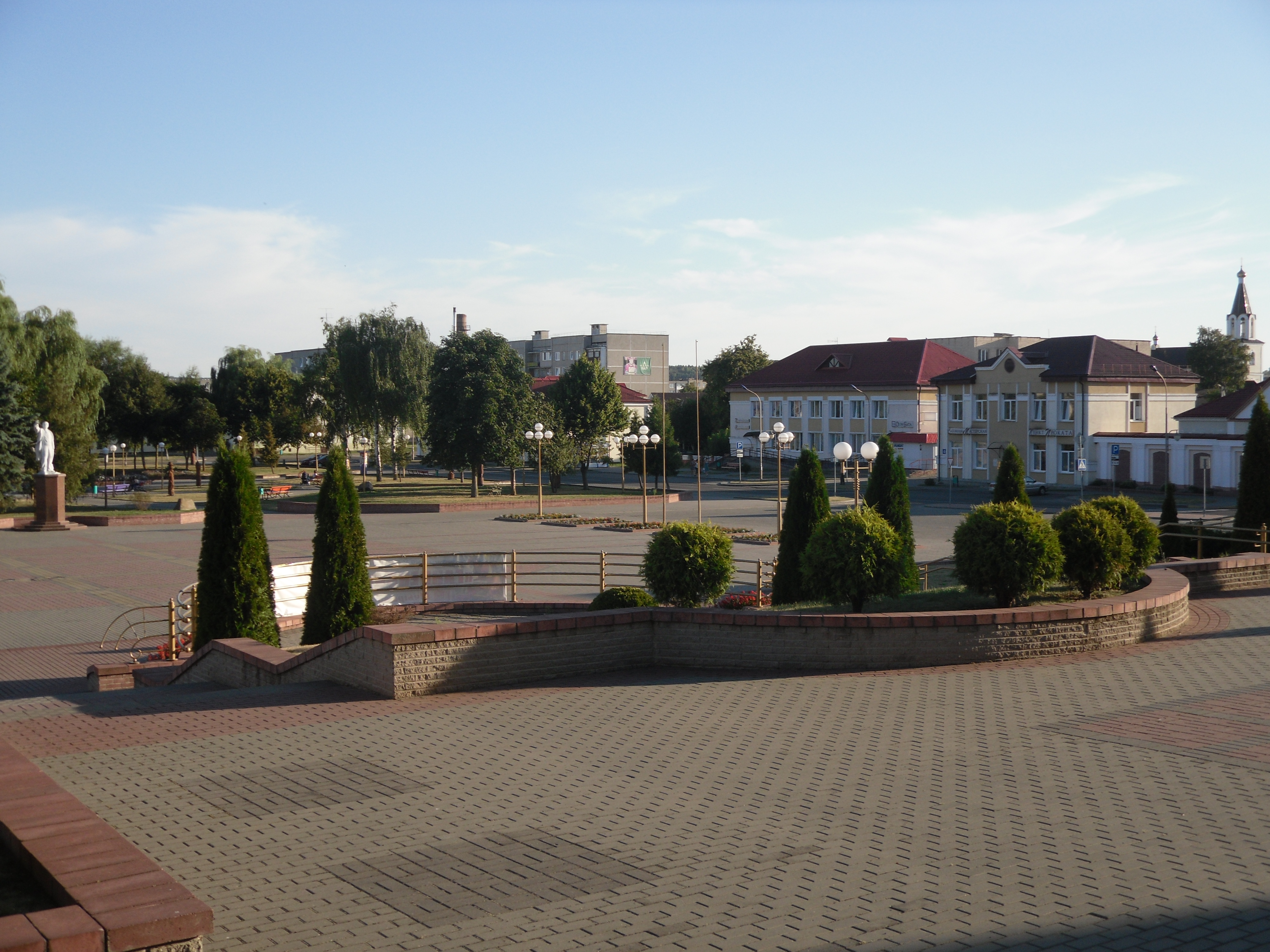 Central square of Zel'va, Belarus